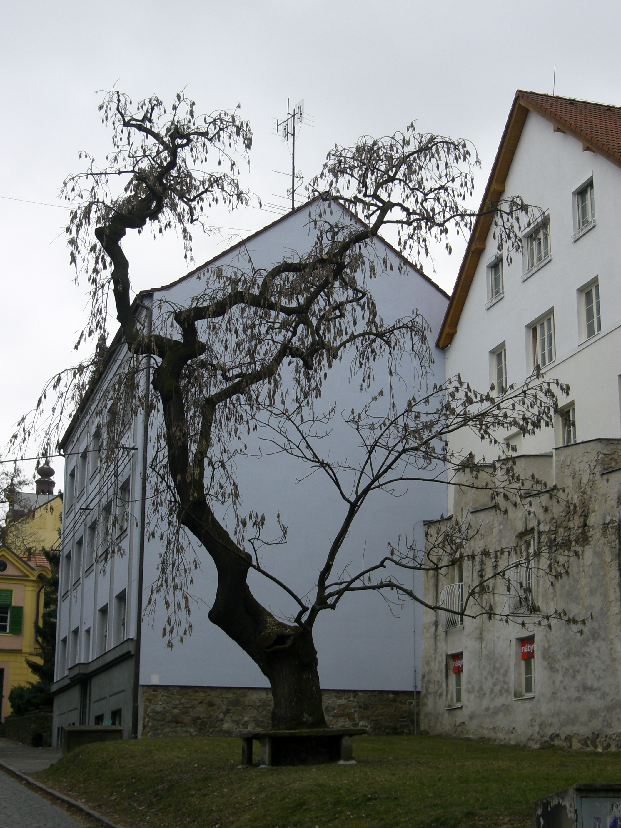 Old and famous tree Fraxinus excelsior in Písek town, Czech Republic - OpenStreetMap(Info)